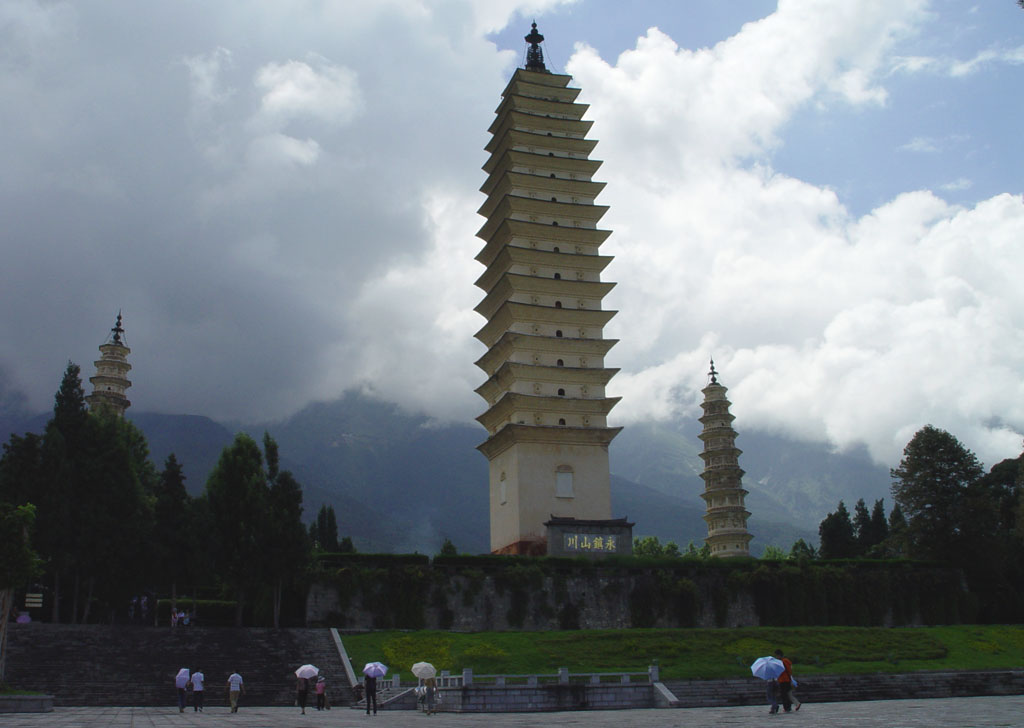 The Three Pagodas of Chong Sheng Temple, Dali, Yunnan province, China Author: Jian Qiu